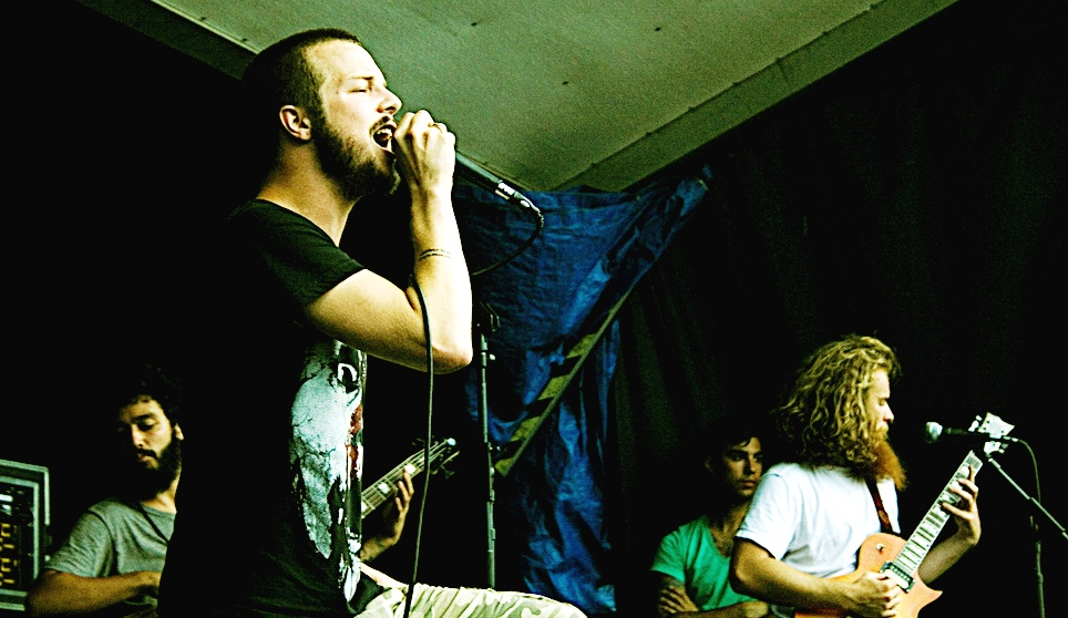 Protest the Hero live in 2008.